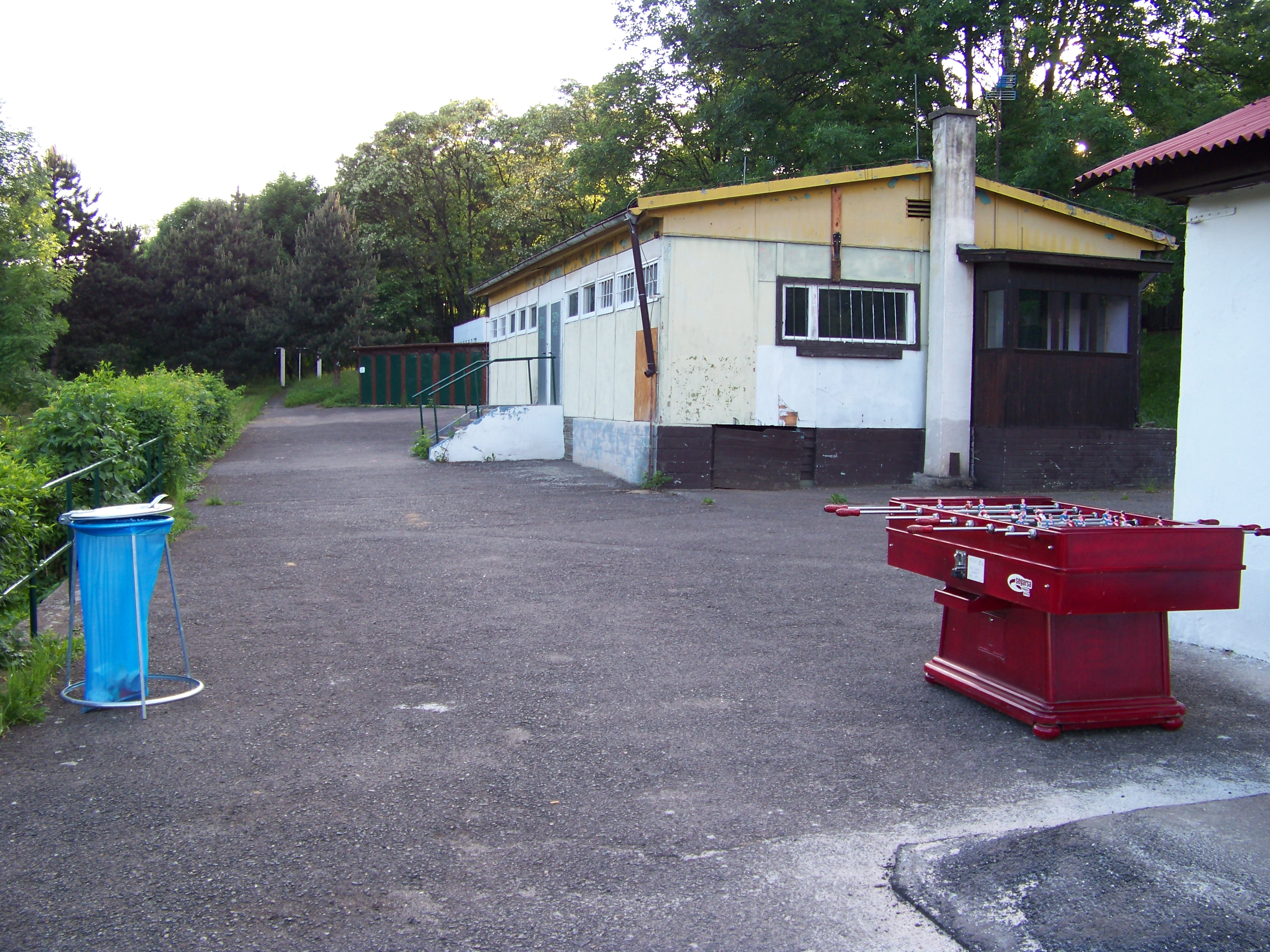 Motol, Prague, the Czech Republic. Motol lido.